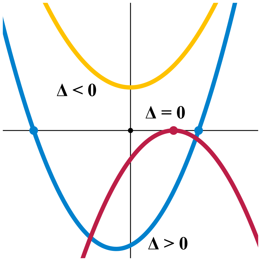 Plots of quadratic equations with discriminant positive, zero, negative